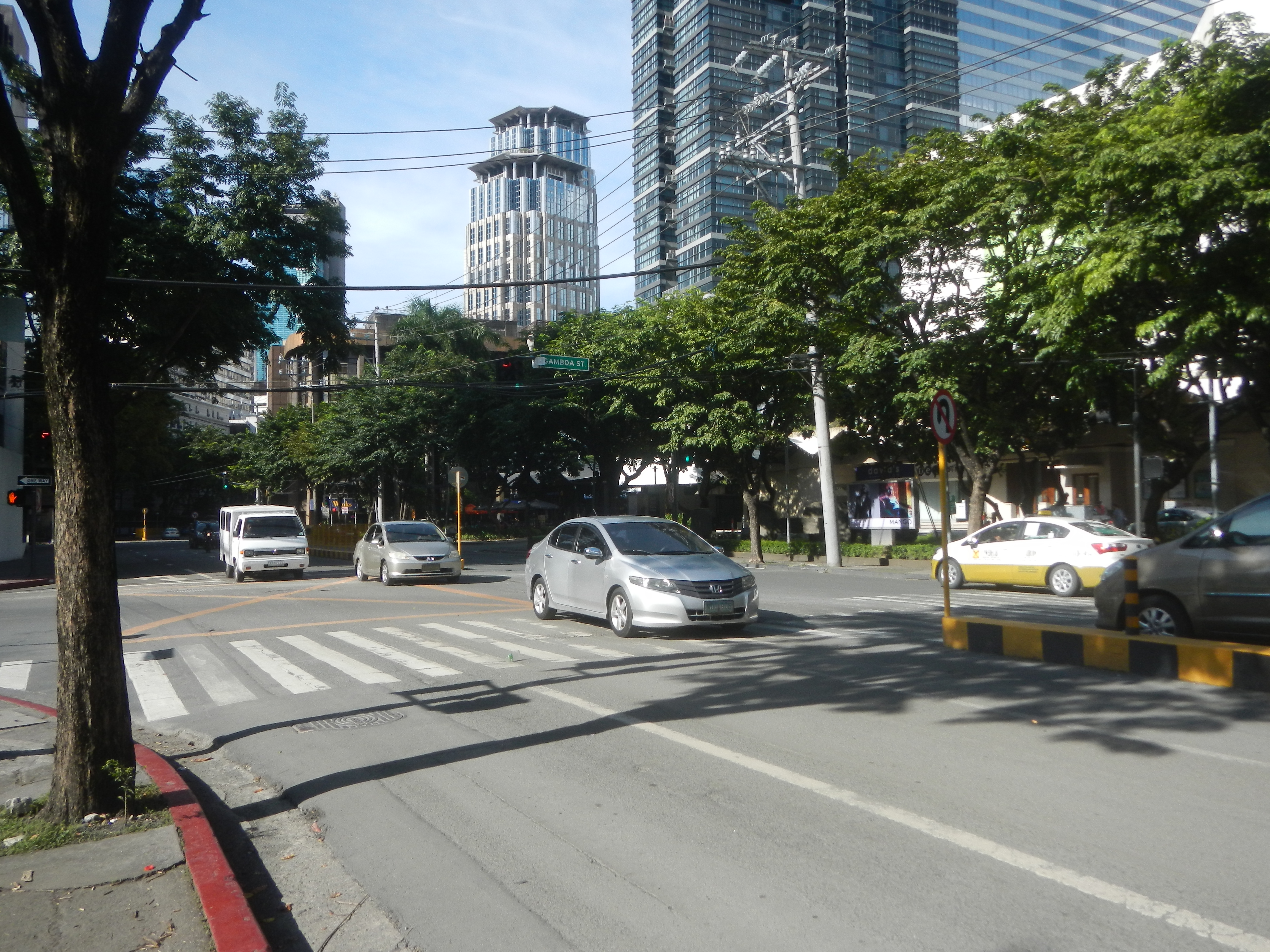 The Residences at Greenbelt Ayala Land Gamboa Street Corinthian Plaza Paseo de Roxas Greenbelt Park (Ayala Center) Ayala Center Santo Niño de Paz Chapel Greenbelt (Ayala Center) Greenbelt's Organic Garden (Ayala Center) Tarragon Basil fields in the Philippines from and towards Ayala MRT Station Ayala MRT Station 14°32'57"N 121°1'40"E Makati Central Business List of barangays of Metro Manila, Legislative districts of Makati Barangay San Lorenzo 14°33'4"N 121°1'13"E Makati City (Note: Judge Florentino Floro, the owner, to repeat, Donor Florentino Floro of all these photos hereby donate gratuitously, freely and unconditionally all these photos to and for Wikimedia Commons, exclusively, for public use of the public domain, and again without any condition whatsoever).